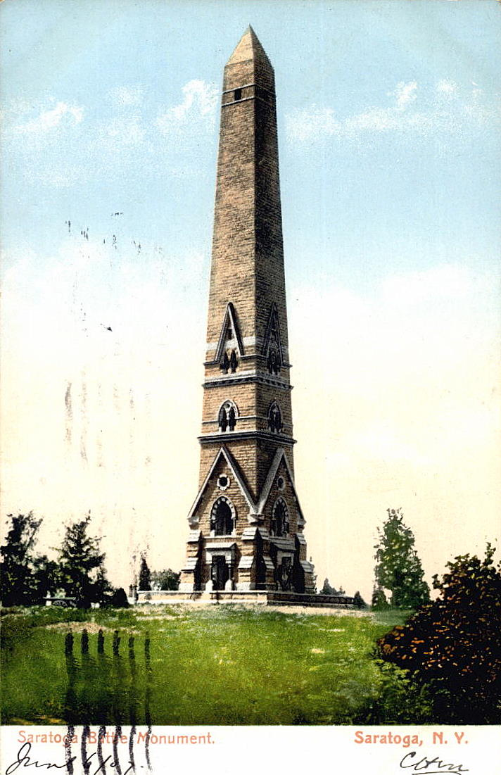 Saratoga Battle Monument, Victory, New York